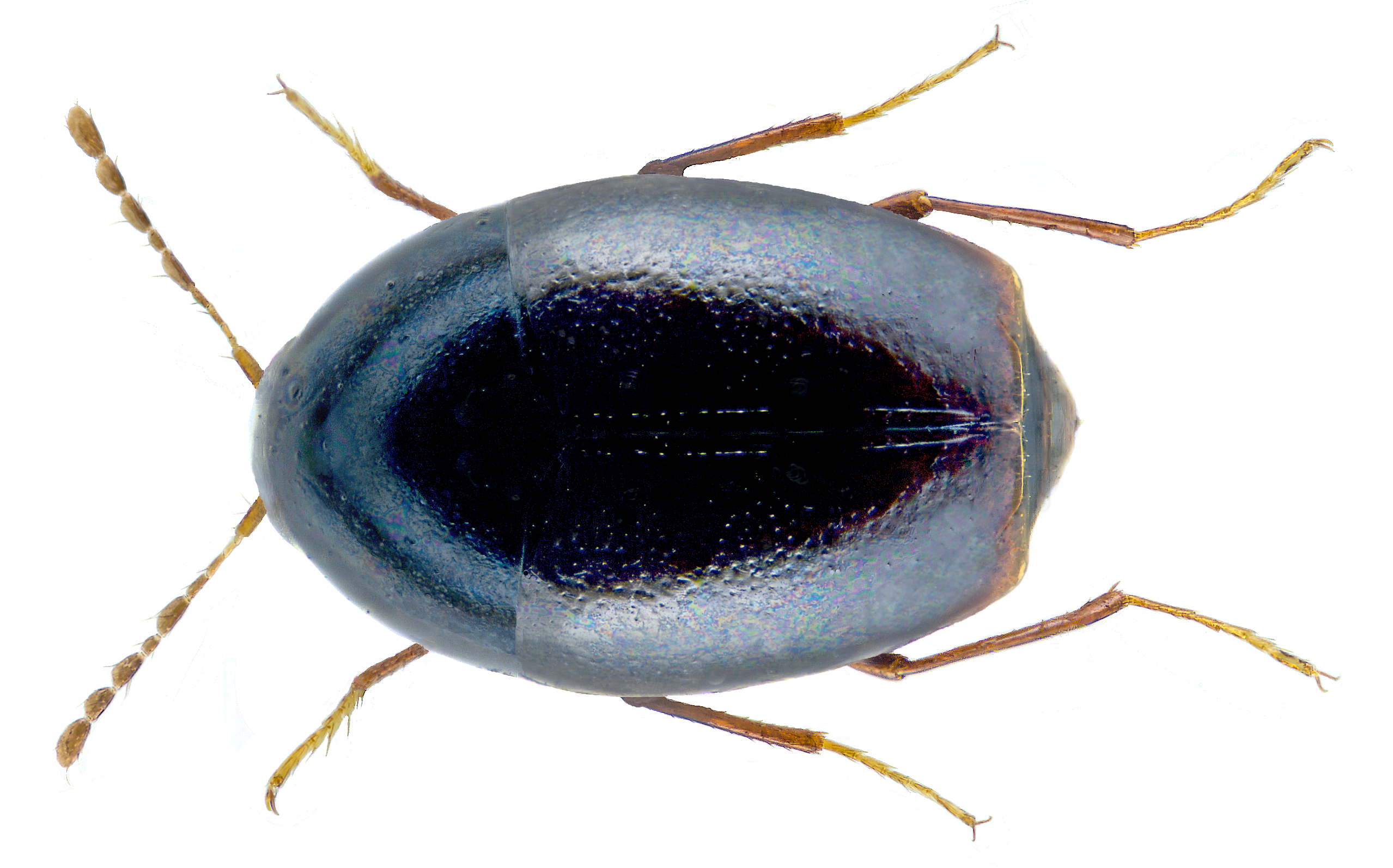 Family: Staphylinidae (Scaphidiidae) Size: 1,8 mm Distribution: Europe, Asia Minor, South Siberia, North Africa Ecology: animals live in mushrooms Location: Germany, Rheinland-Pfalz, Bad Neuenahr, Idienbachtal leg.det. J.Scheuern, 17.VII.1981 Photo: U.Schmidt, 2015